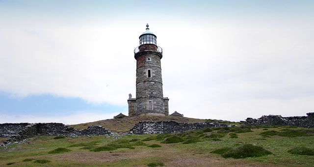 Calf of Man: upper light